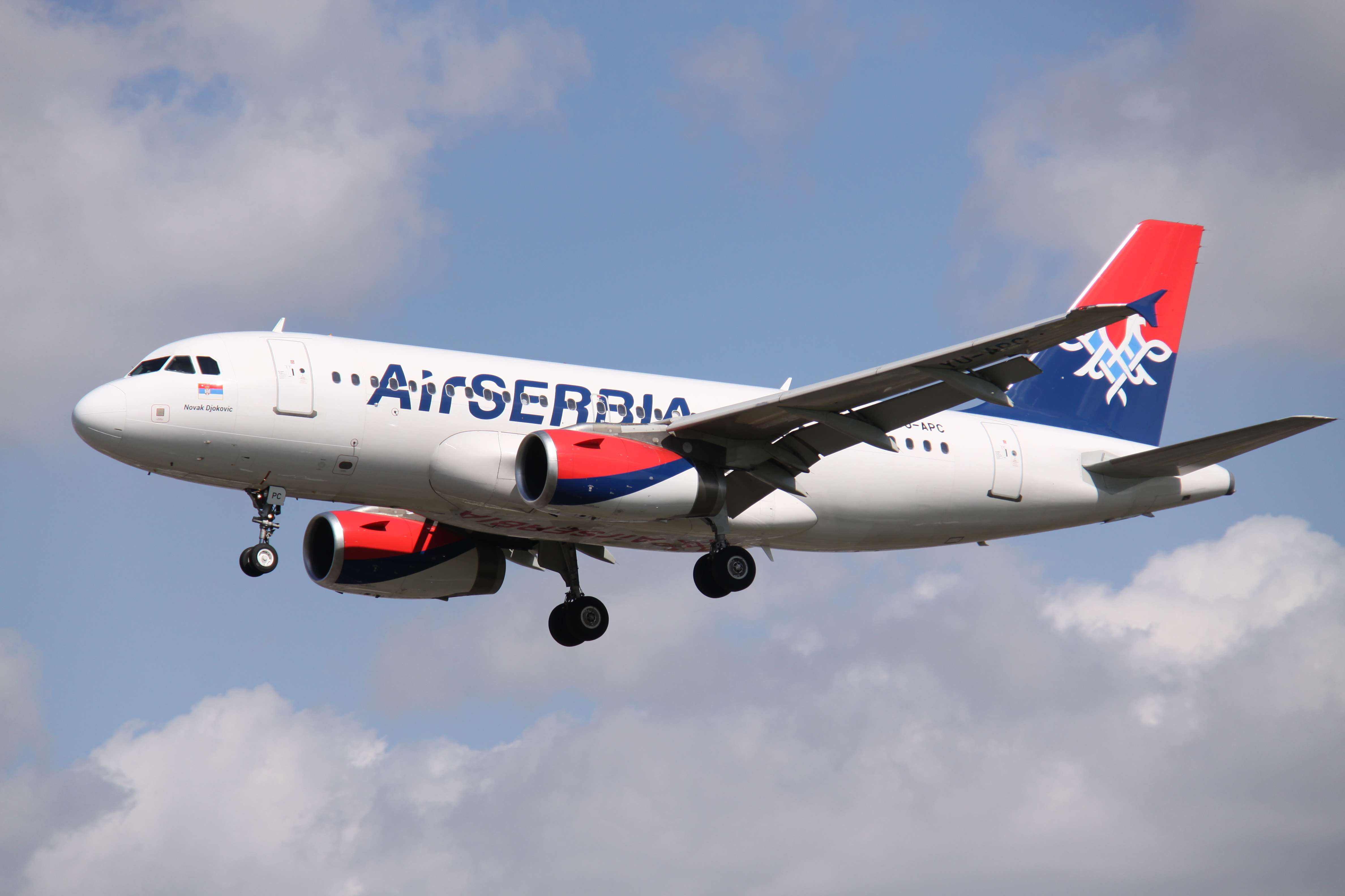 Air Serbia Airbus A319 landing at London Heathrow Airport